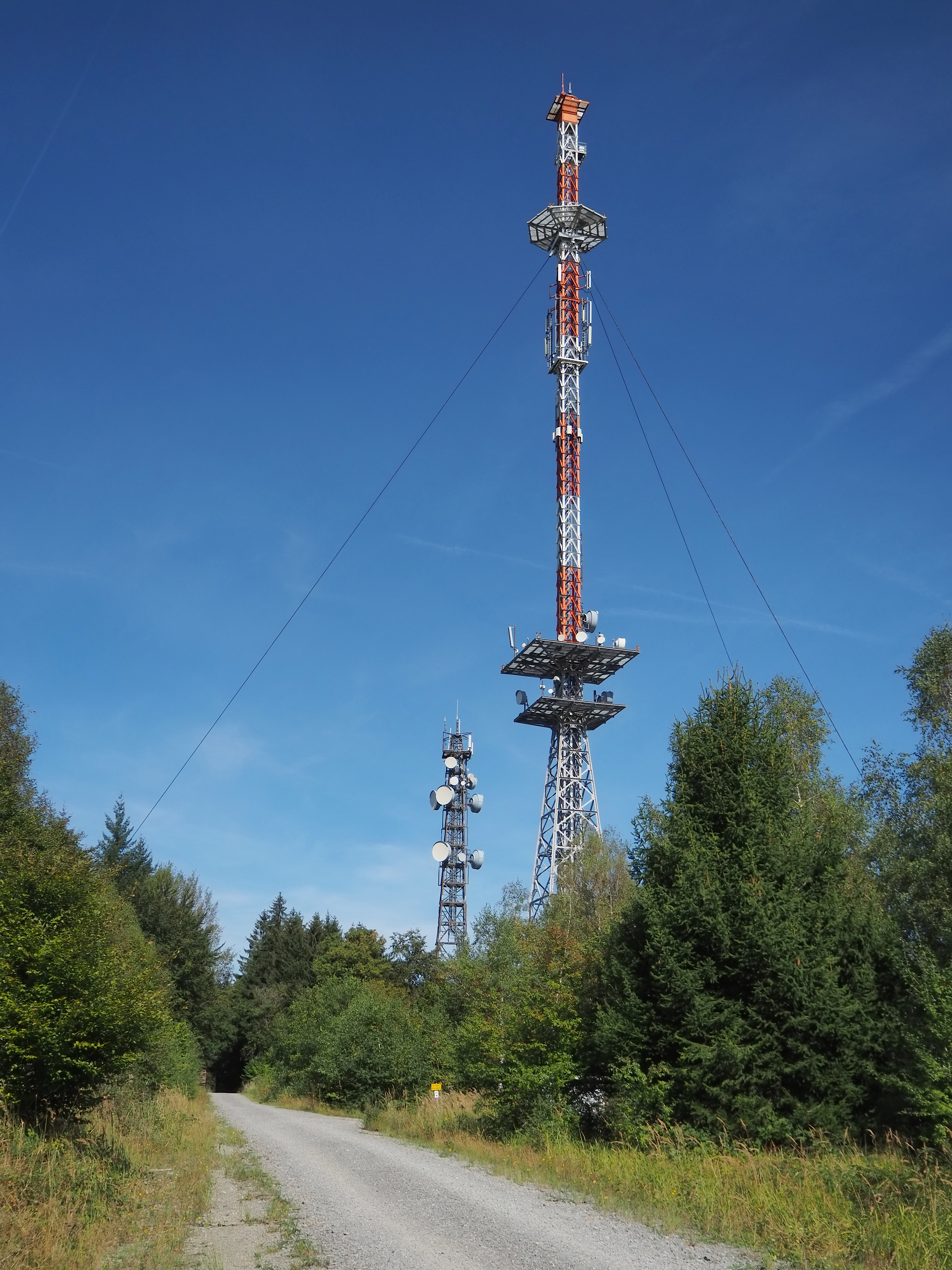 Breitsol transmitter tower